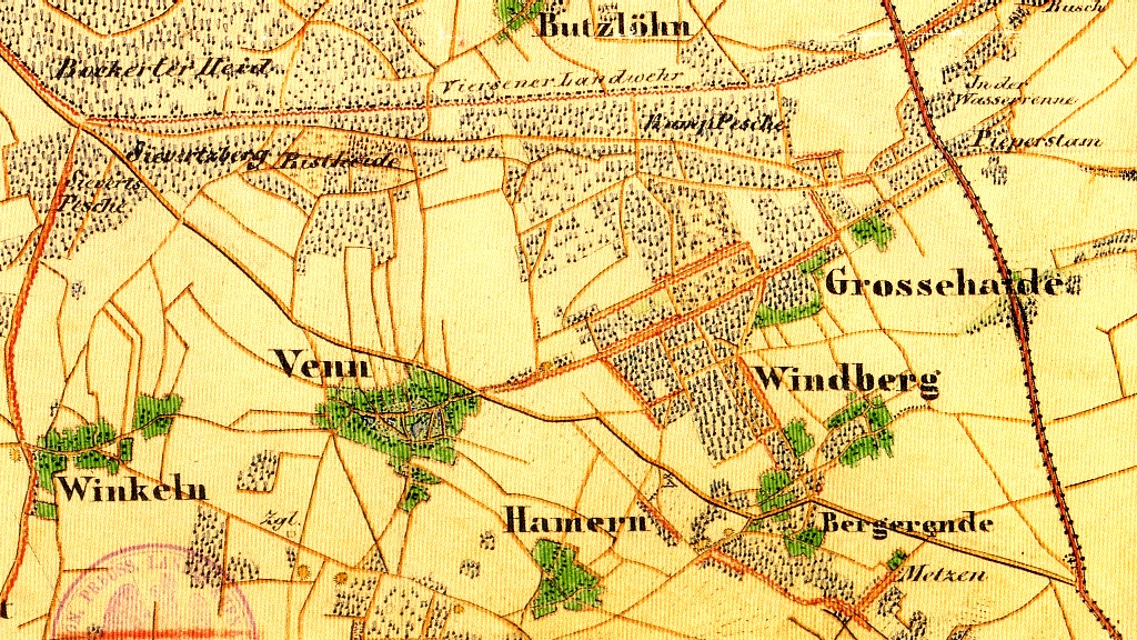 Topographic Map 1:25000 by Royal Prussian Land Survey, sheet 4704 (Viersen), snippet displaying the villages Winkeln, Venn, Hamern, Windberg and Großheide.